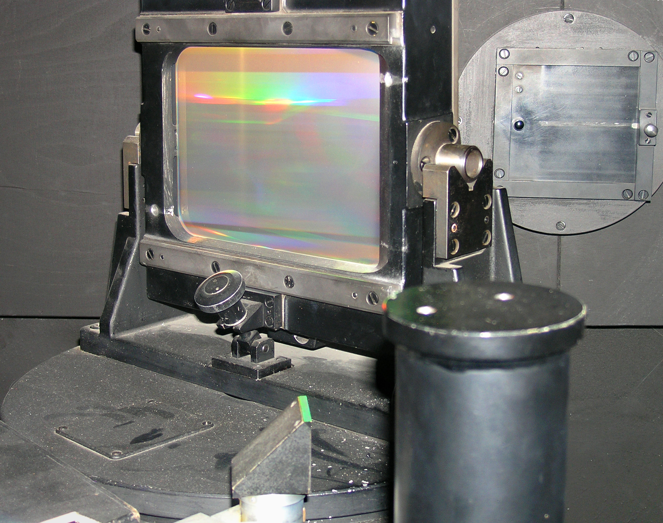 Diffraction grating of coudé spectrograph - part of 2-m reflector from the Czech Astronomical Institute in Ondřejov